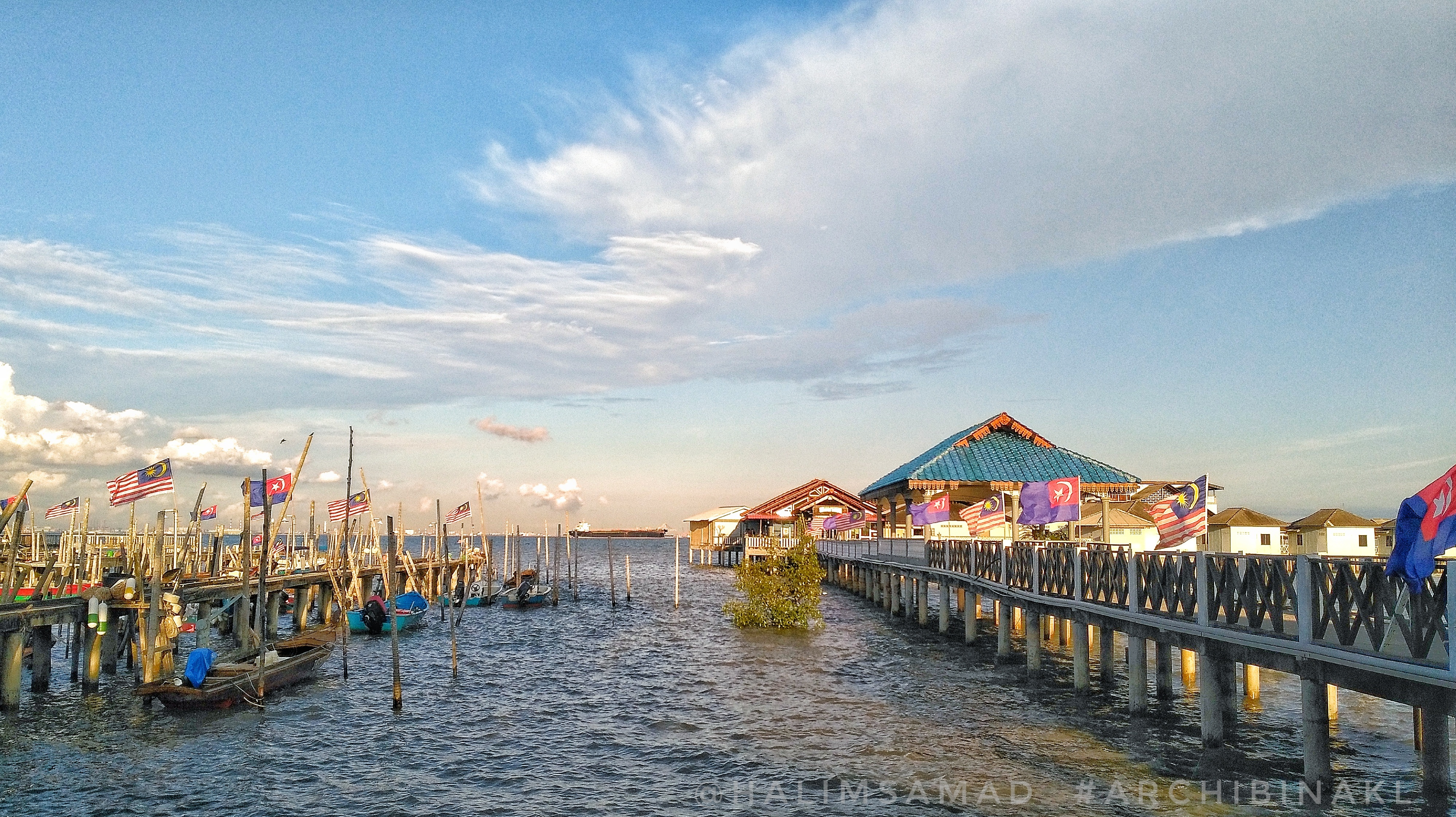 Tanjung Piai is a cape in Pontian District, Johor, Malaysia. It is the southernmost point of Peninsular Malaysia and thus the most southern point of mainland Eurasia. The skyline of Singapore is visible across the Johor Strait from the point. It features seafood restaurants, perched on wooden jetties that are surrounded by a rugged and rarefied coastline of unspoiled mangrove forests.